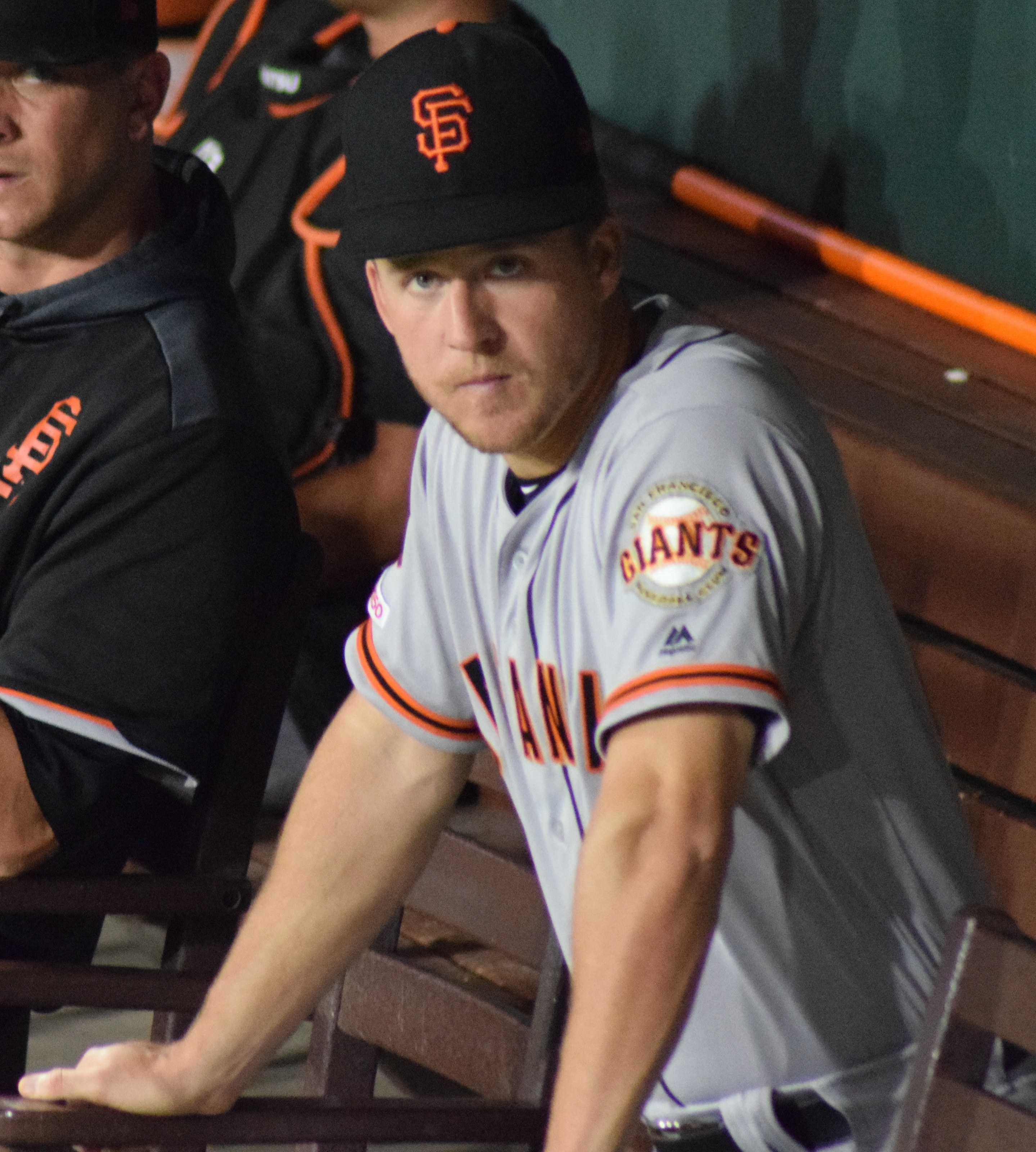 Tony Watson and Trevor Gott in the bullpen with the San Francisco Giants at Citizens Bank Park in Philadelphia in July 2019